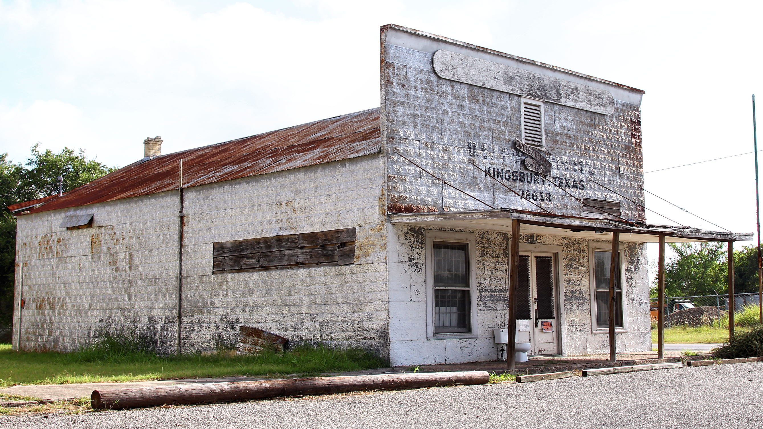 An early commercial building in Kingsbury, Texas, United States. The building is shown in the last scene of the music video for Dierks Bentley's "What Was I Thinkin'".